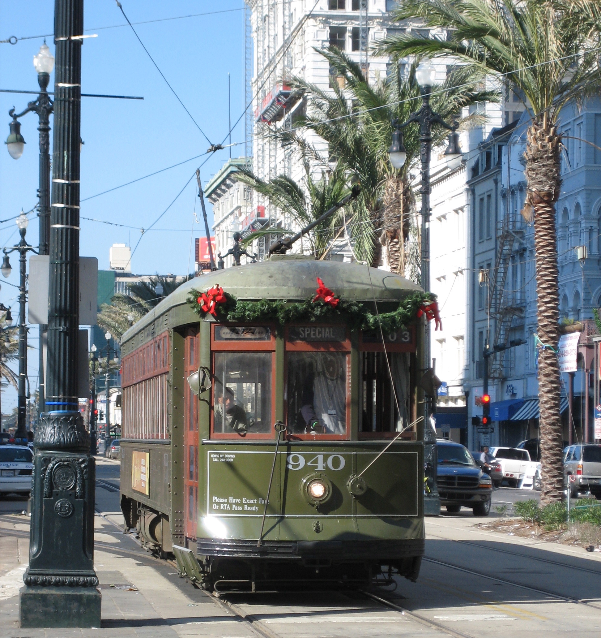 New Orleans after Hurricane Katrina: As the power and cable system for the St. Charles line was destroyed in the storm while the cars in the Carollton barn survived, and the Canal Street infastructrure survived but the cars at the Canal barn in Mid City were flooded, a 1920s Pearly Thomas streetcar from the St. Charles Line runs on Canal Street again for the first time in over 40 years. Photo by Infrogmation, December 2005.